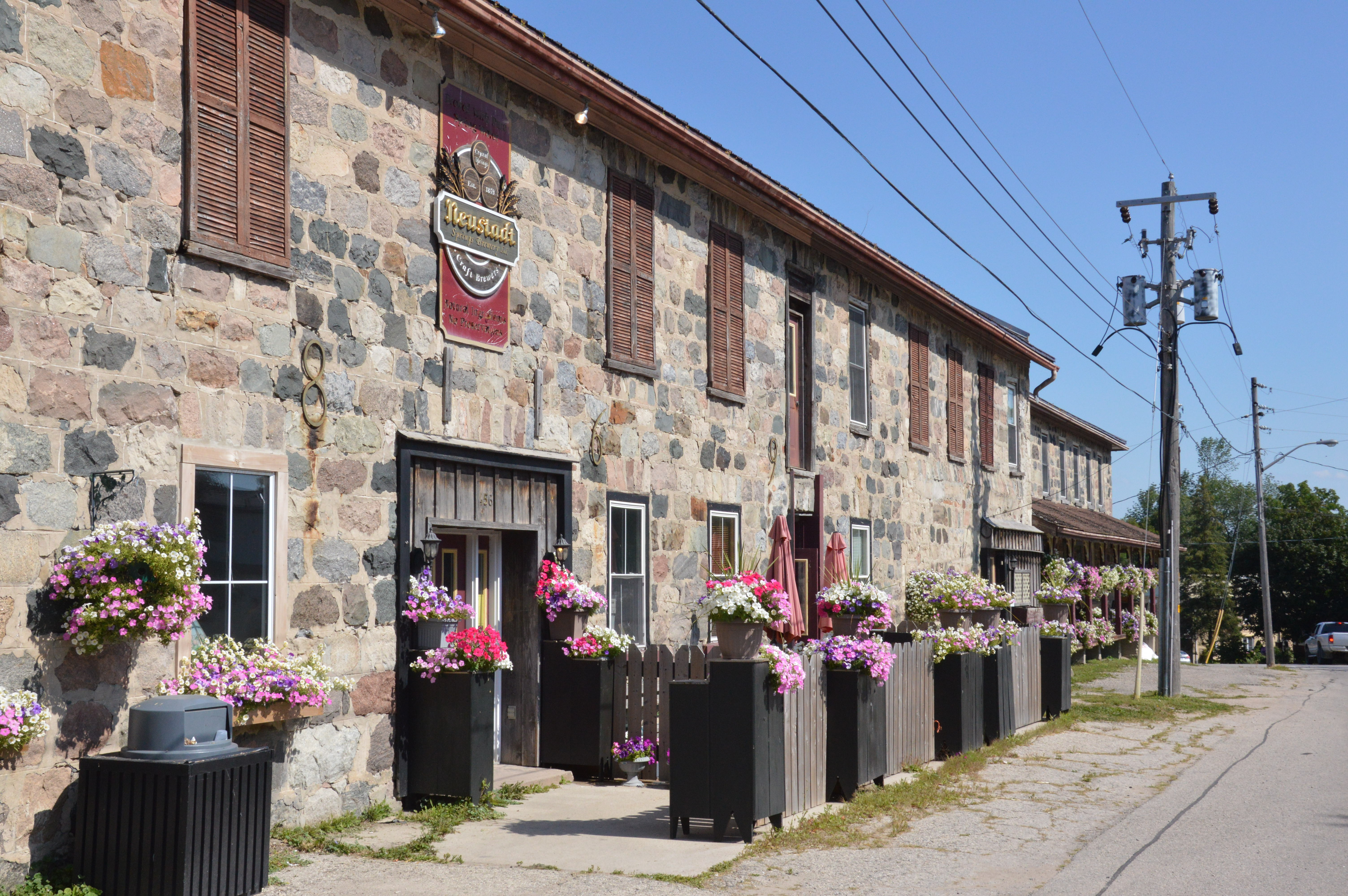 Neustadt Springs Brewery in Neustadt, Ontario, Canada